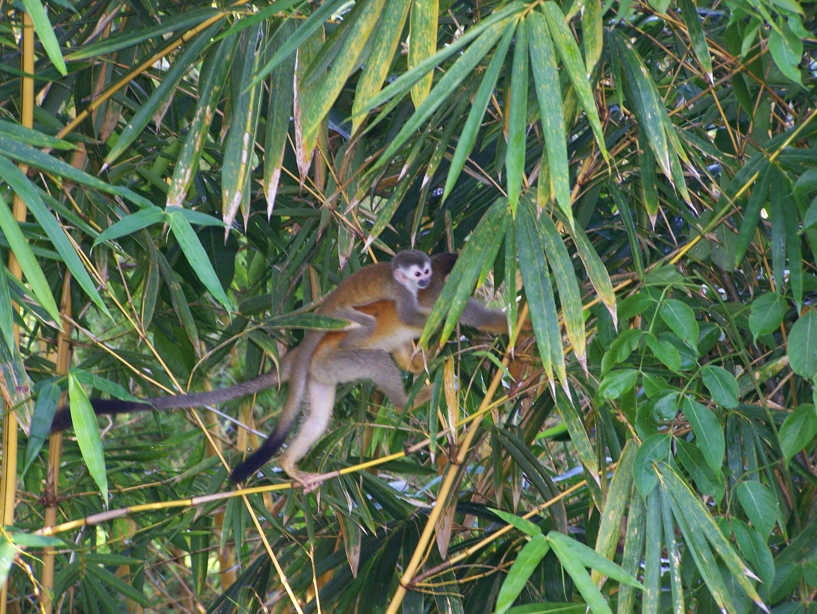 Baby Central American Squirrel Monkey gets a ride from its mother near Manuel Antonio National Park